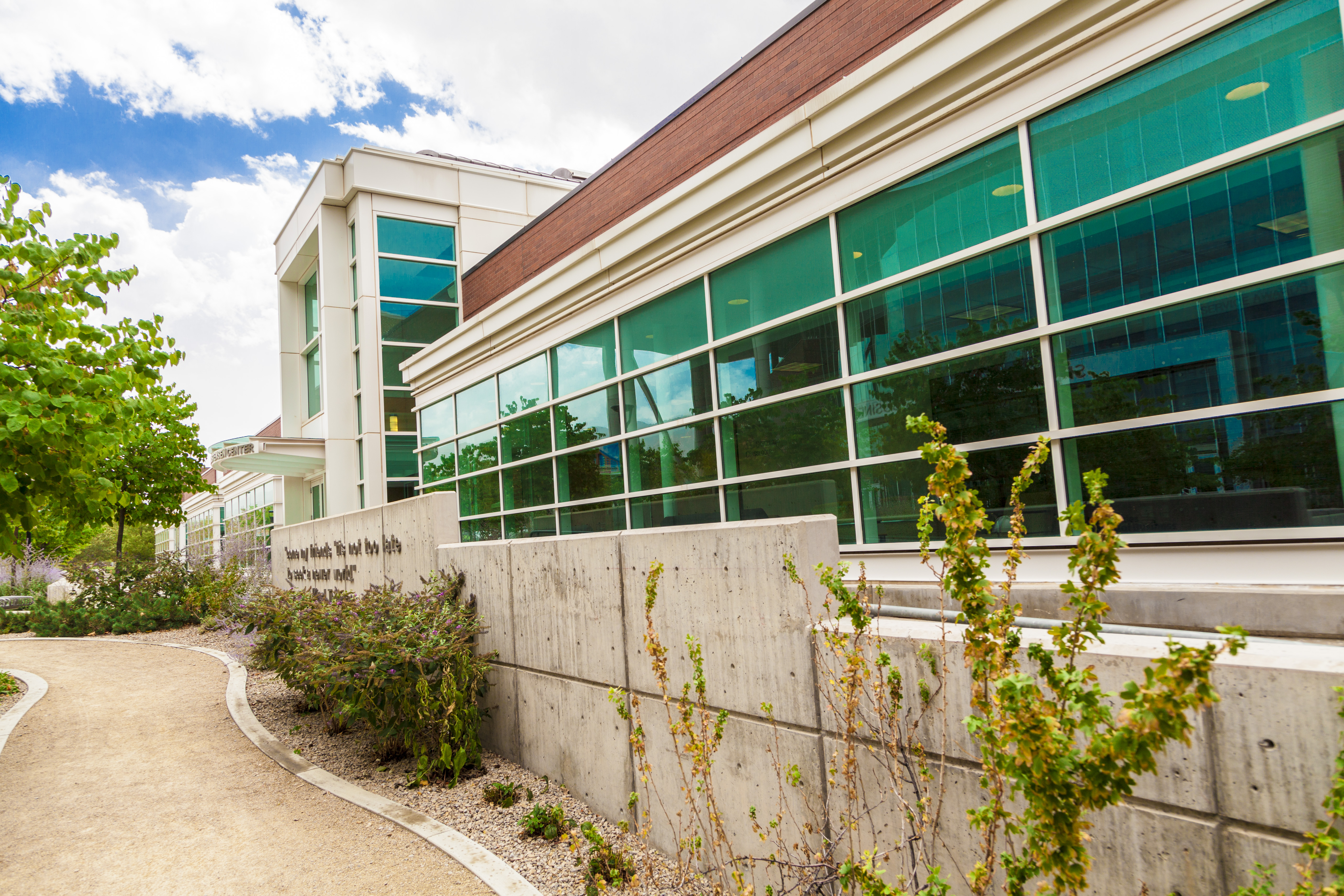 Exterior of the C. Roland Christensen Center of the David Eccles School of Business at the University of Utah in Salt Lake City, Utah, USA.